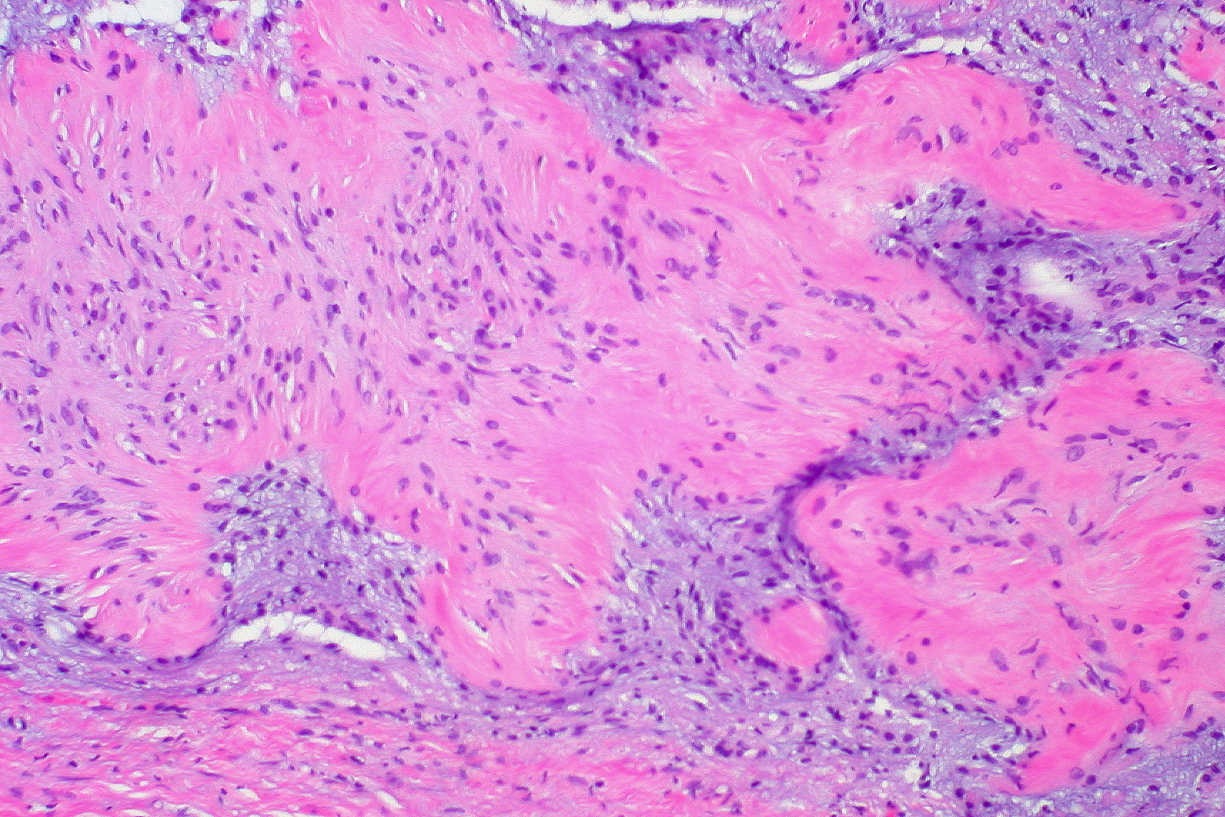 Schwannoma Pathological and histological images courtesy of Ed Uthman at flickr.